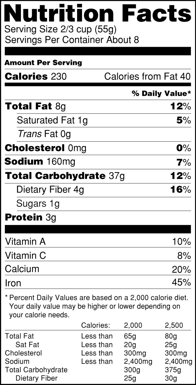 Nutrition Facts label introduced in 2006, adding trans fat